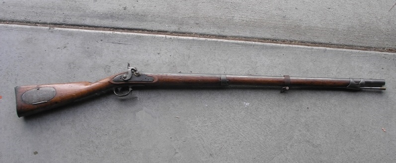 A US Model 1814 Rifle, one of the group constructed by R. Johnson, sold at auction November 15, 2011. This one was converted from flintlock to percussion cap.